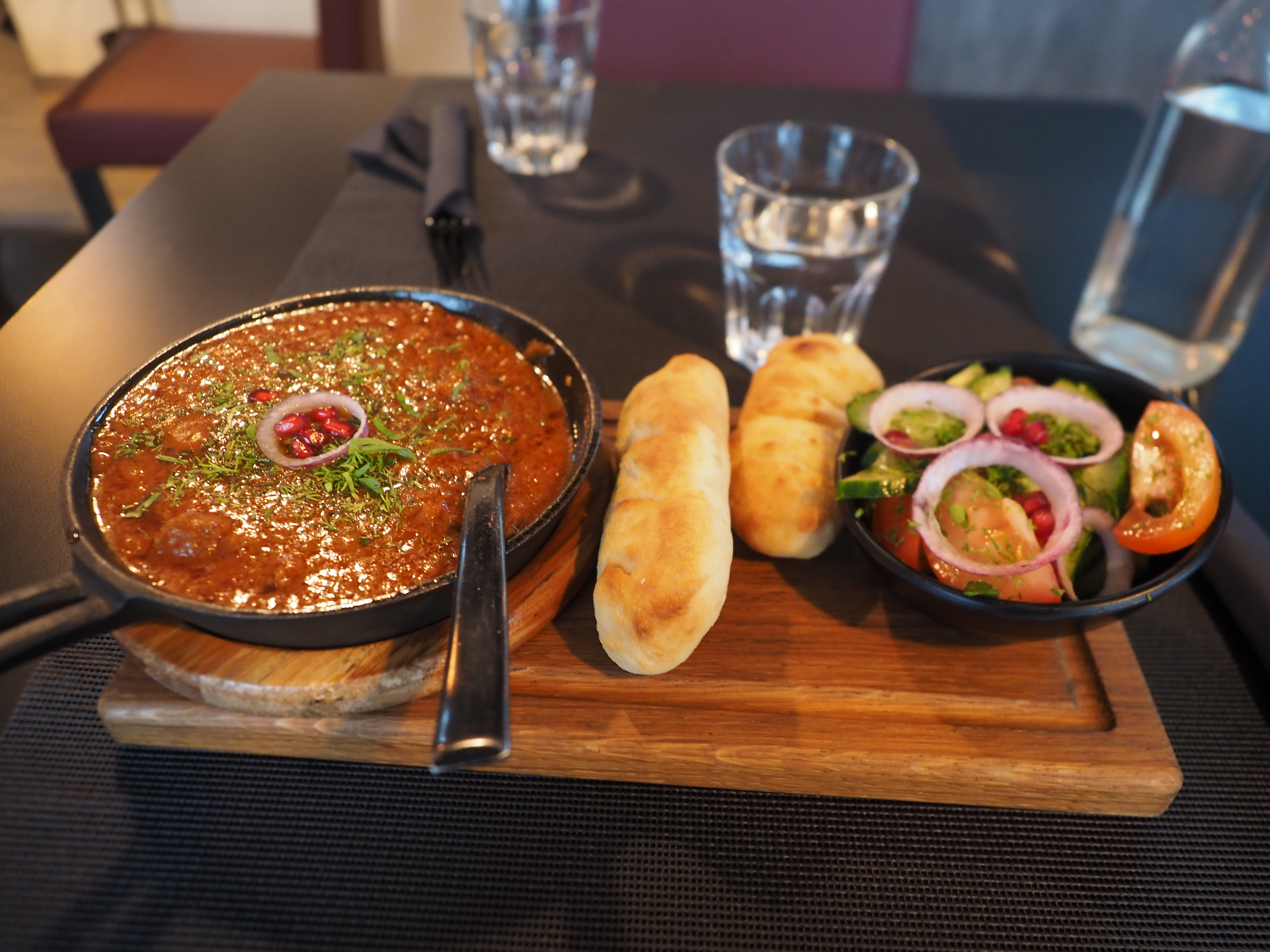 A dish of Chashushuli (Georgian spicy beef stew), bread and Georgian-style salad, along with a glass of water, served at restaurant Rioni in Haukilahti, Espoo, Finland.